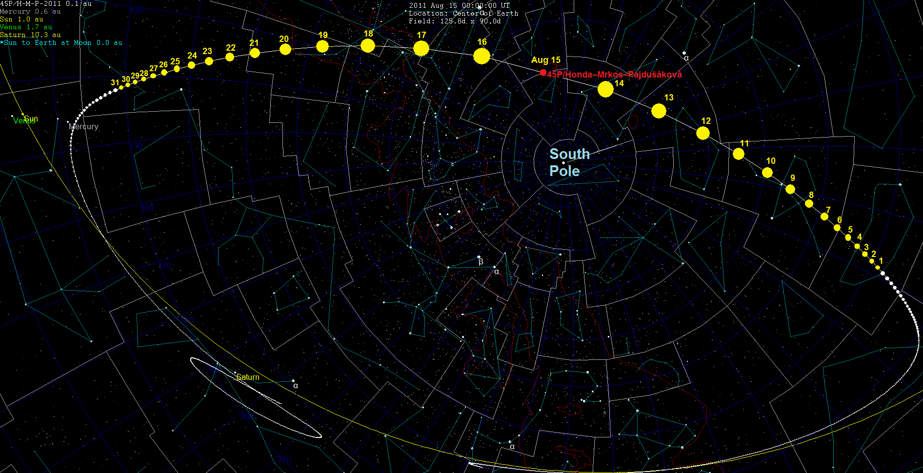 comet en:45P/Honda–Mrkos–Pajdušáková, trajectory during closest approach in August 2011